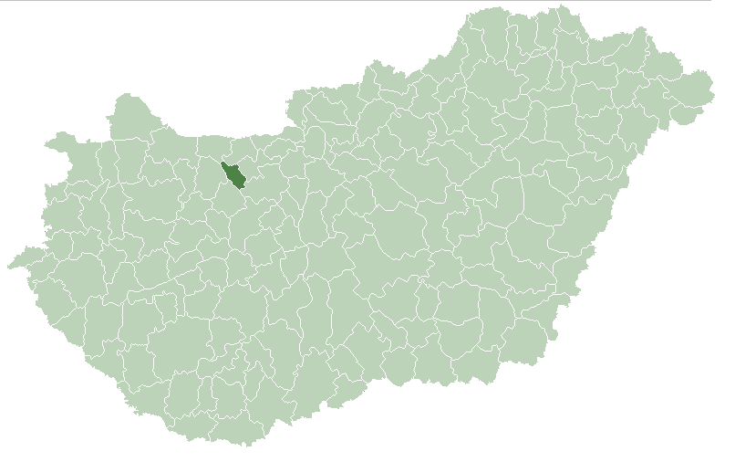 Subregion Oroszlány